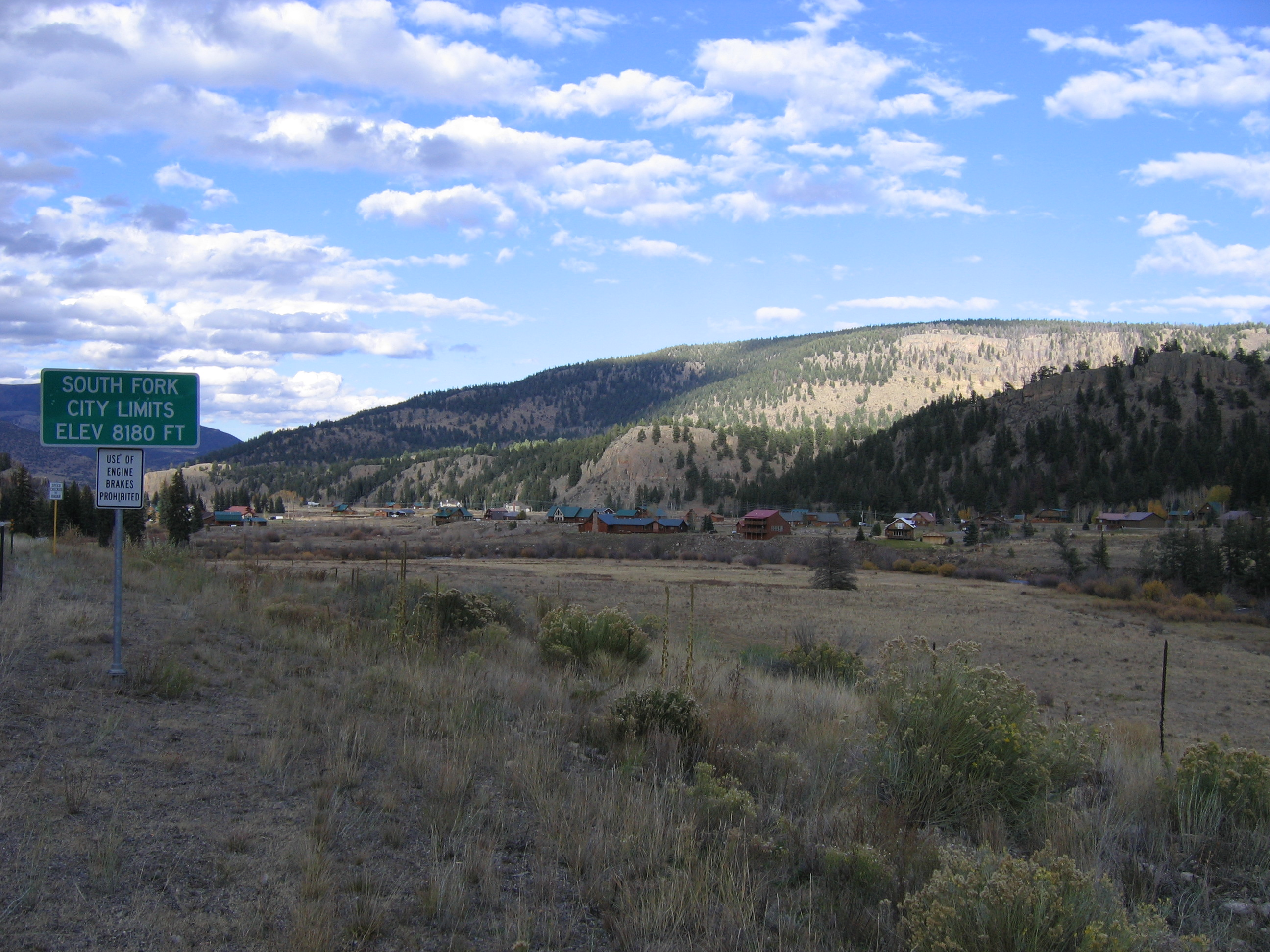 Housing on the outskirts of South Fork, Colorado; Autumn 2006